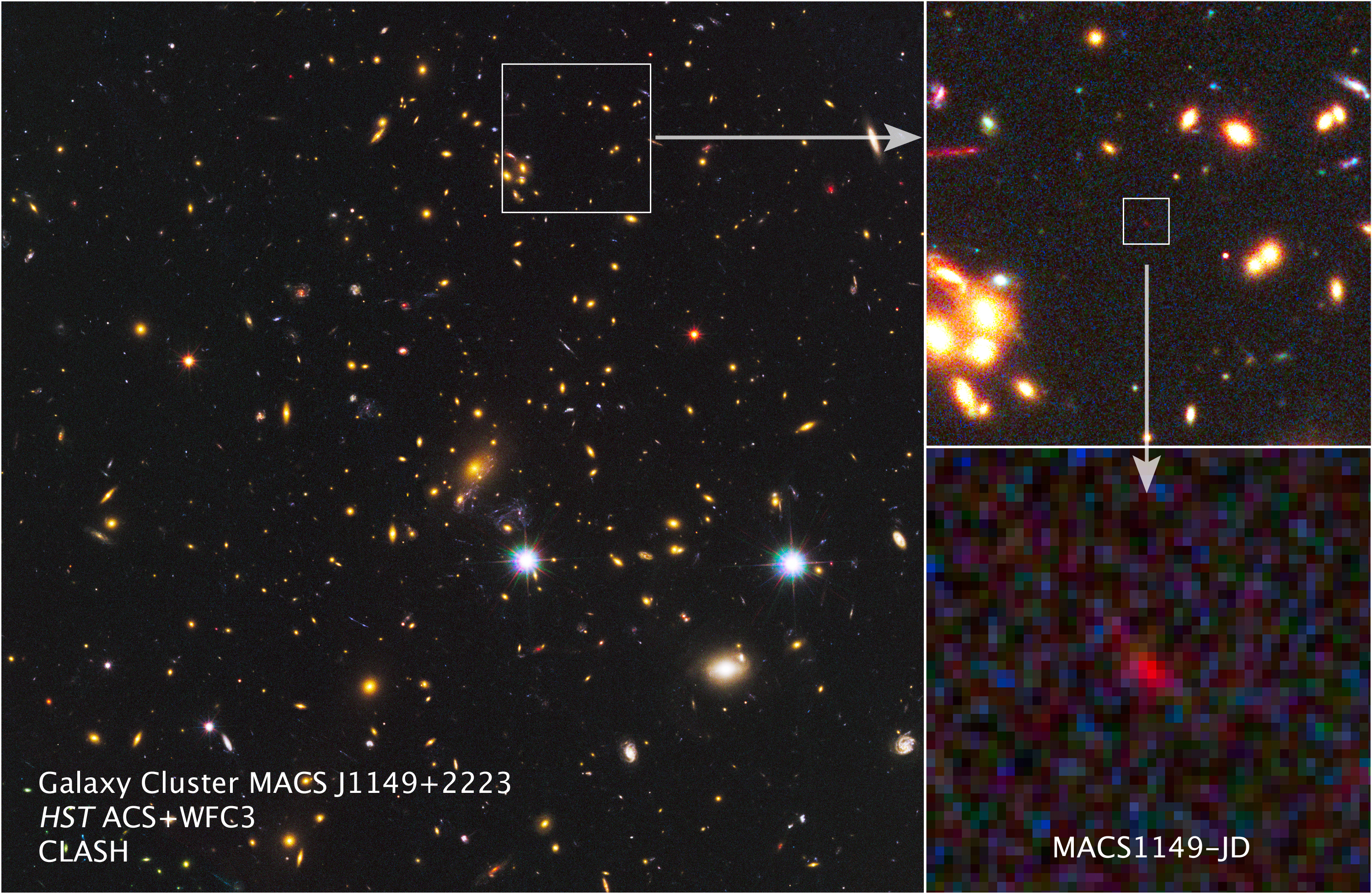 Annotated montage of Hubble Space Telescope photograph of galaxy cluster MACS J1149+2223 and zoom-in of high-redshift galaxy candidate MACS1149-JD.